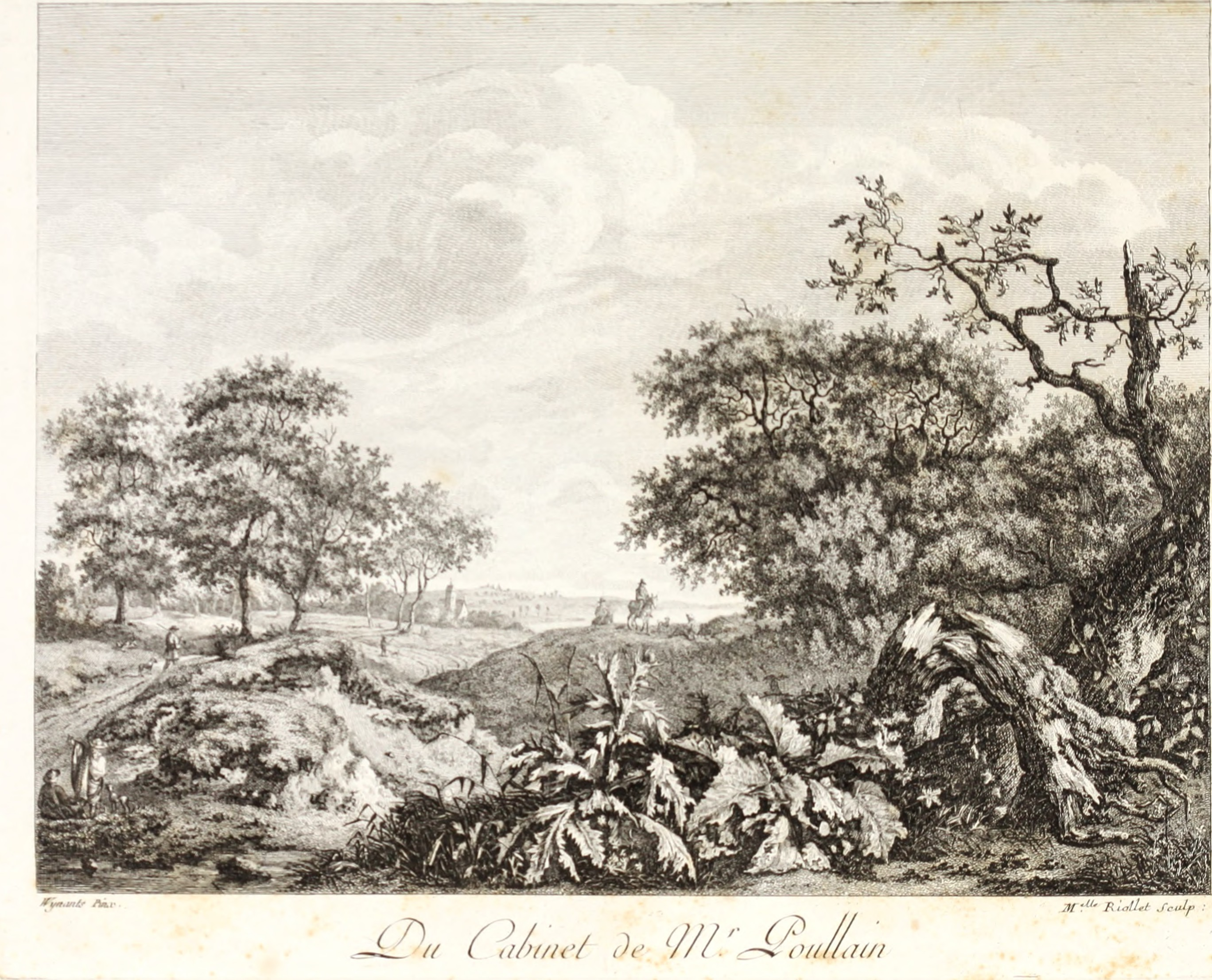 Title: Collection de cent-vingt estampes, gravée d'après les tableaux & dessins qui composoient le cabinet de m. Poullain ... précédée d'un abrégé historique de la vie des auteurs qui la composent ... Cette suite a été exécutée sous la direction du sieur Fr. Basan ... par de jeunes artistes des deux sexes, dont les talens se font connoître & accroissent de jour en jour. Le sr. Moitte ... en avoit fait les dessins, d'après les tableaux .. Year: 1781 (1780s) Authors: Poullain, d. 1780 Basan, François, 1723-1797 Moitte, painter Subjects: Painting Drawing Publisher: Paris : Se vend chez Basan et Poignant Text Appearing Before Image: ' Text Appearing After Image: '